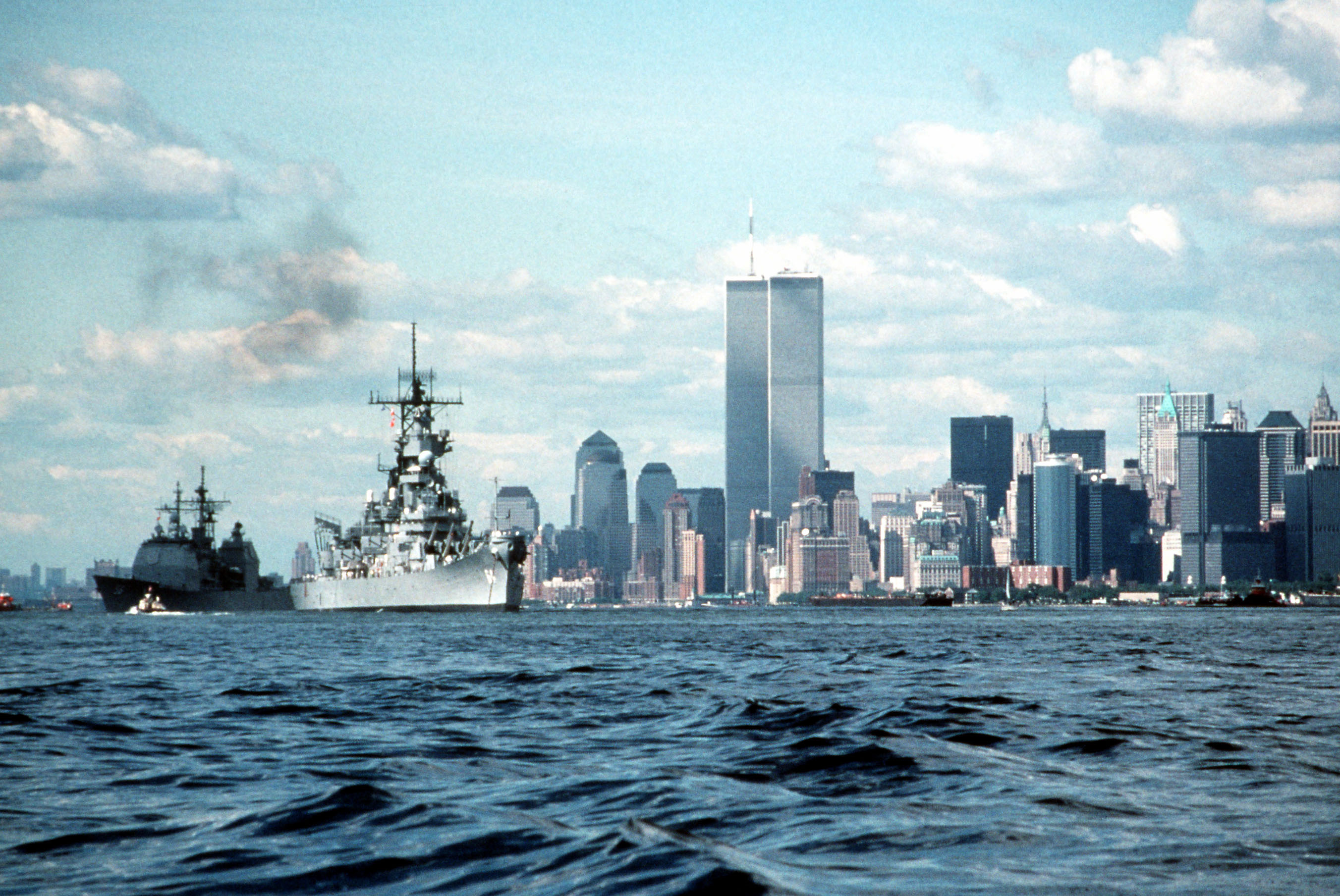 The battleship USS WISCONSIN (BB-64) and a Ticonderoga-class guided missile cruiser (either USS Leyte Gulf (CG-55) or USS San Jacinto (CG-56)) sit at anchor in the harbor during the fourth annual Fleet Week activities.Location: NEW YORK, NEW YORK (NY) UNITED STATES OF AMERICA (USA)